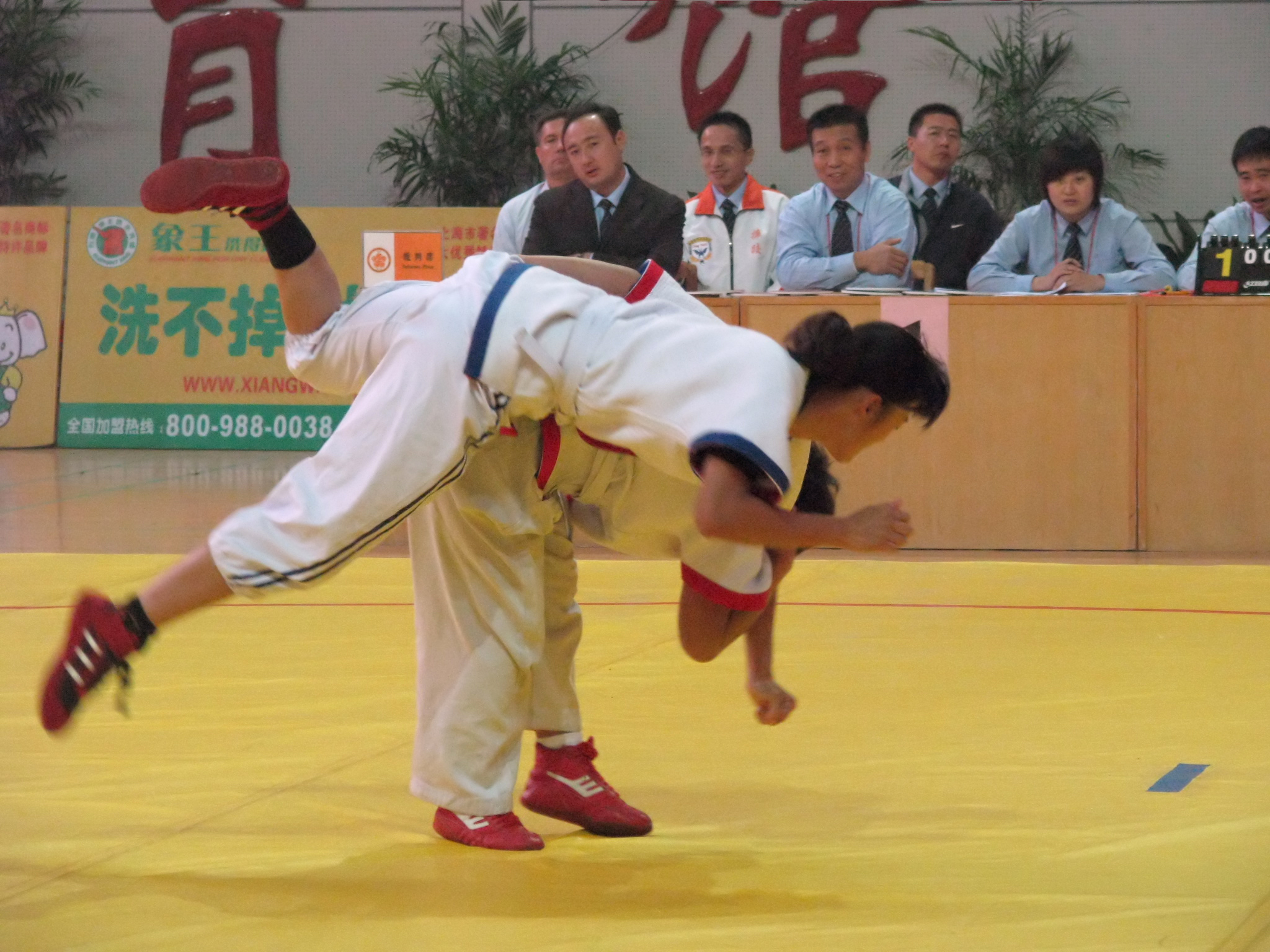 Chinese type wrestling, Shuaijiao, Taizhou Zhejiang 2007 11 24, 泰州 中国式摔跤